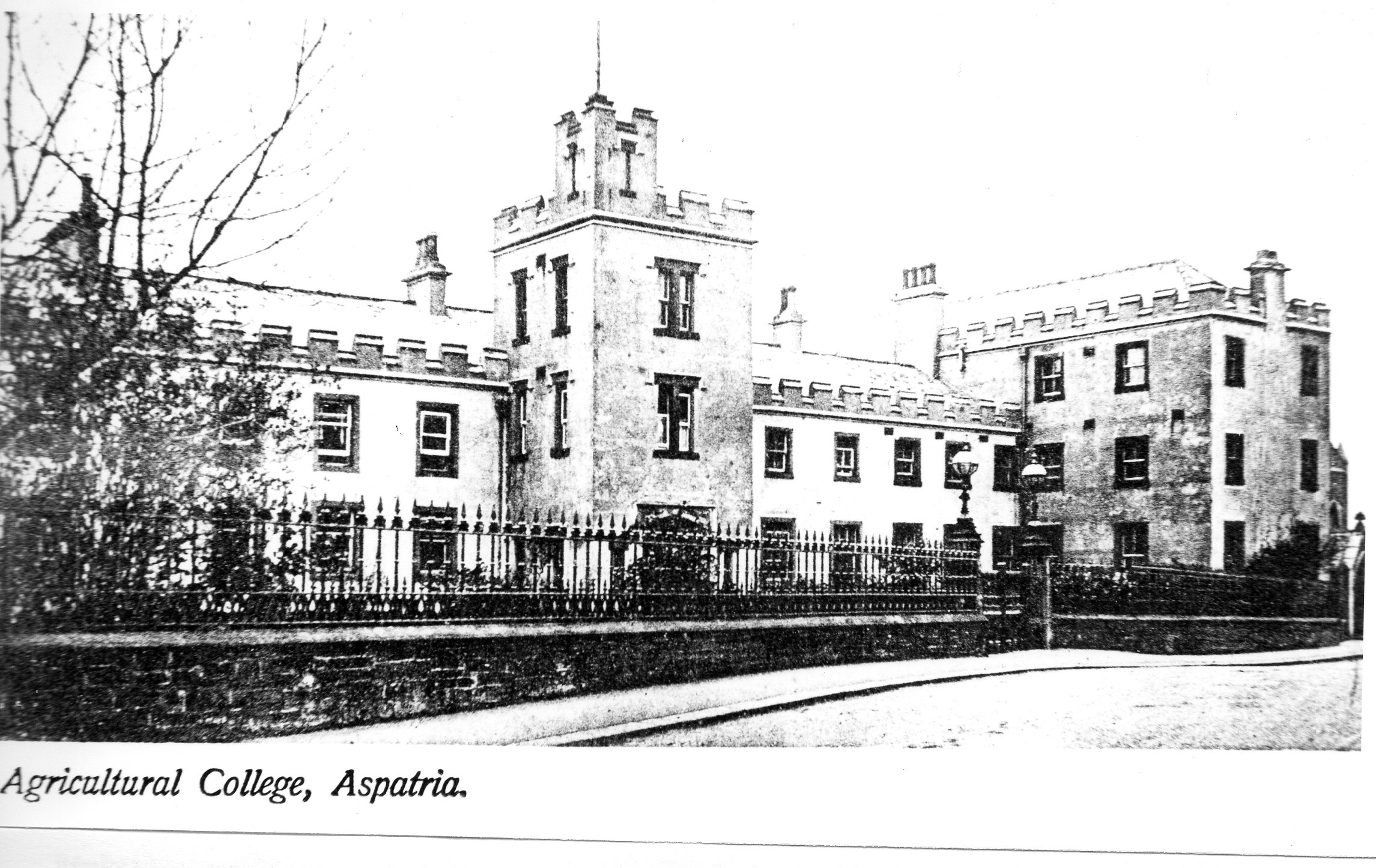 Photo